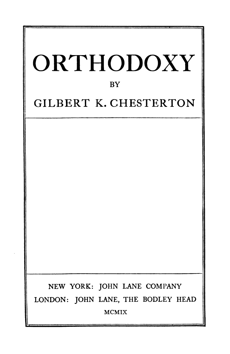 Title Page of Orthodoxy, by G.K. Chesterton